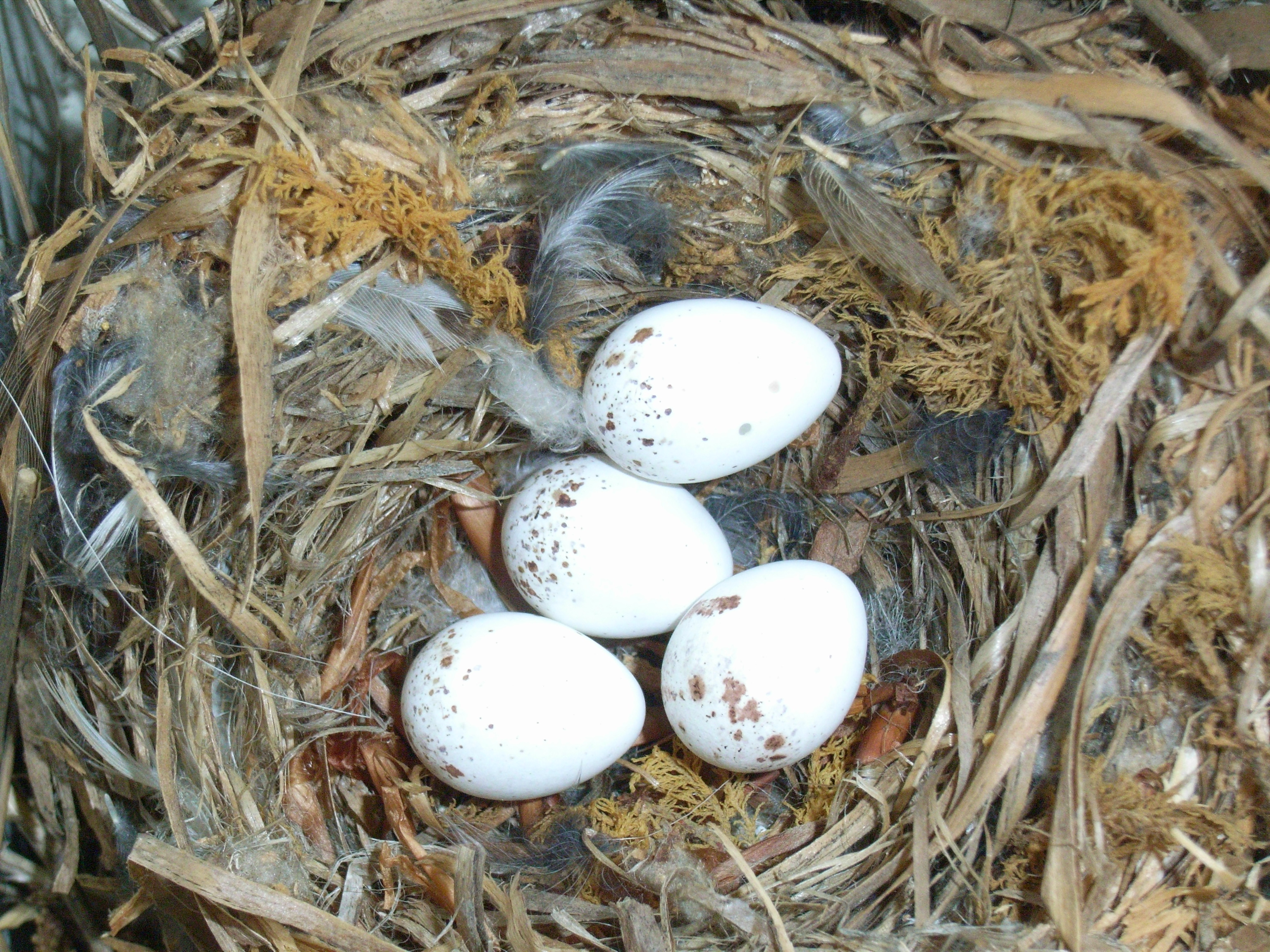 Certhia familiaris eggs